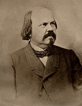 Octave Crémazie